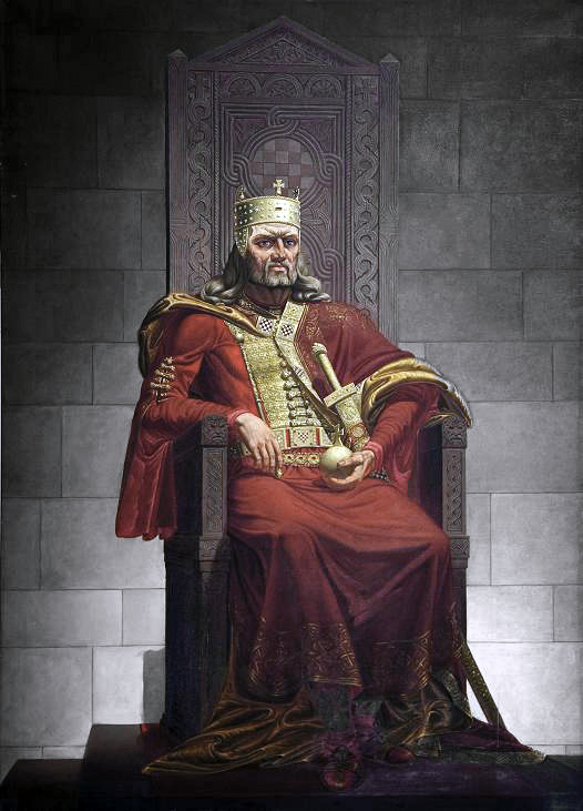 King Tomislav at throne in croatian ornament